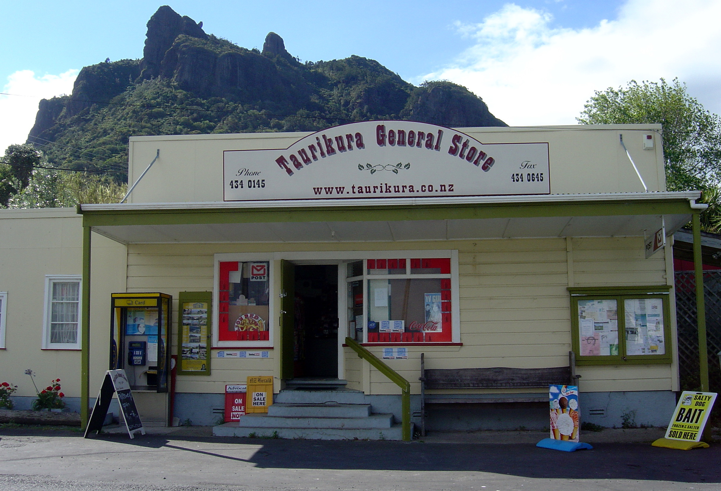 General Store at Taurikura with Mt Manaia towering behind.